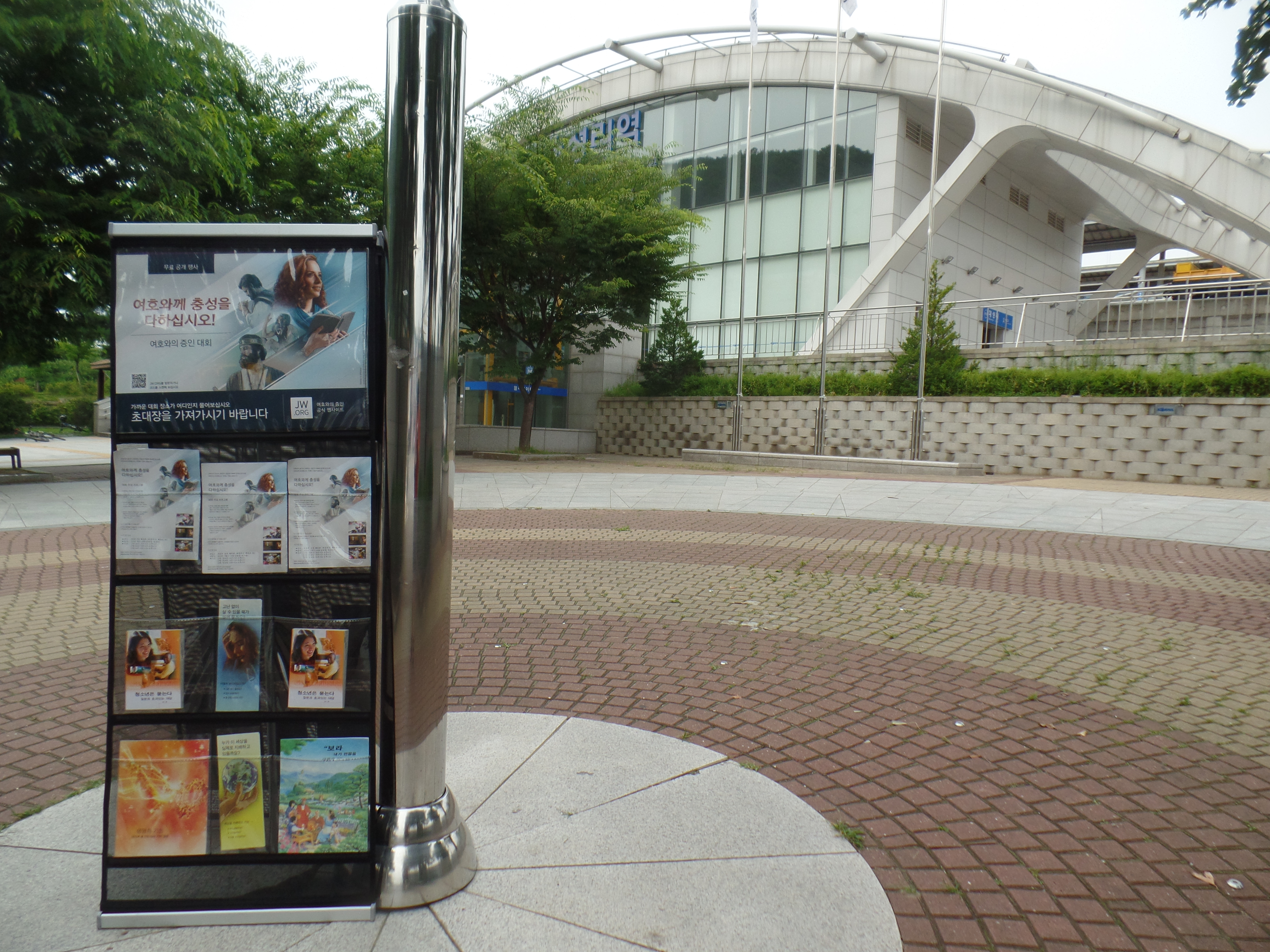 Jehovah's Witnesses Pamphlet Stand in Front of the Daeseongri Station